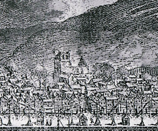 Scholeusstikket made in 1580, cropped to show Nikolaikirken.